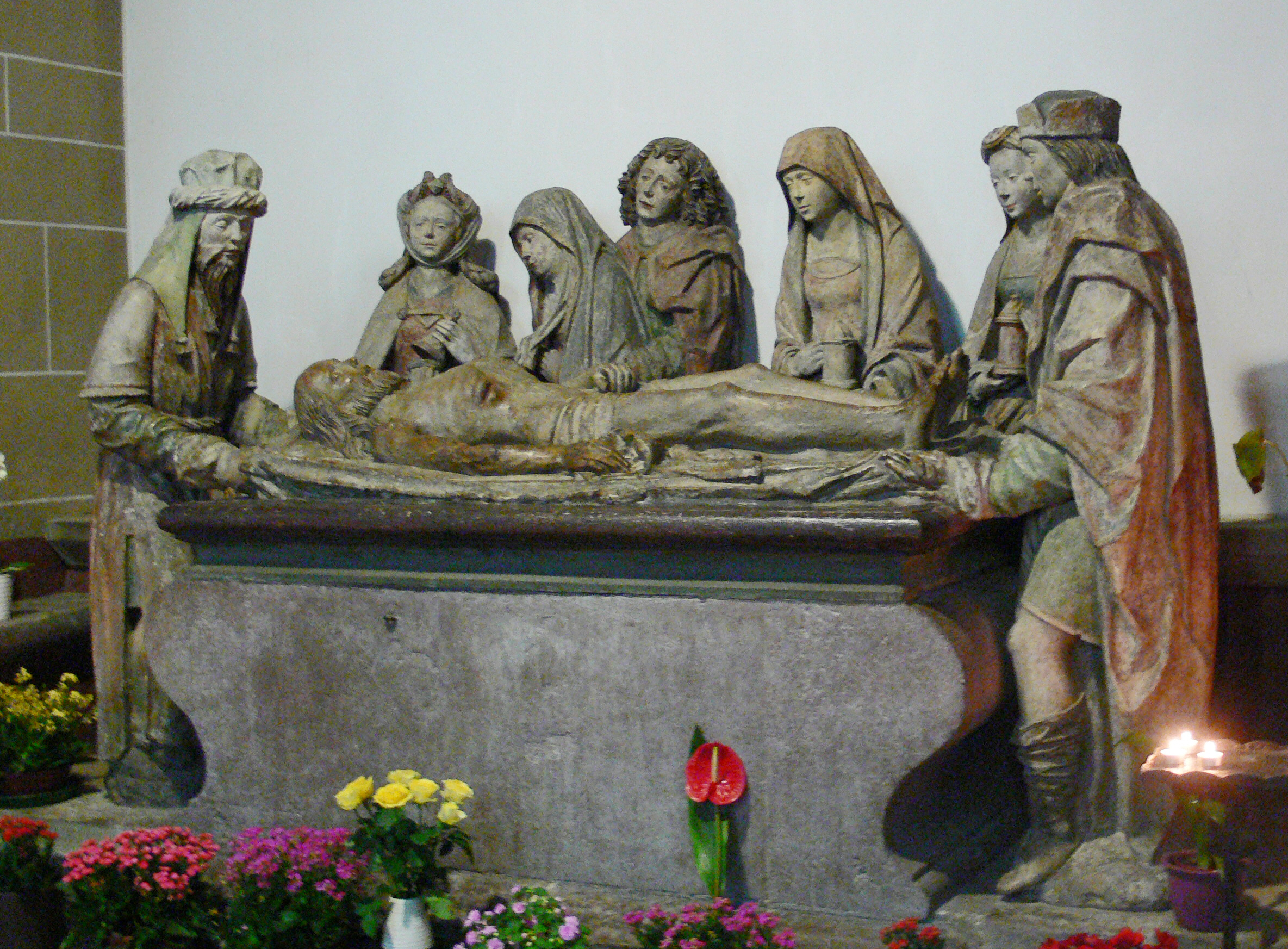 Essen Minster, Essen, Germany: Entombment of Christ, Cologne, 1st quarter of 16th century